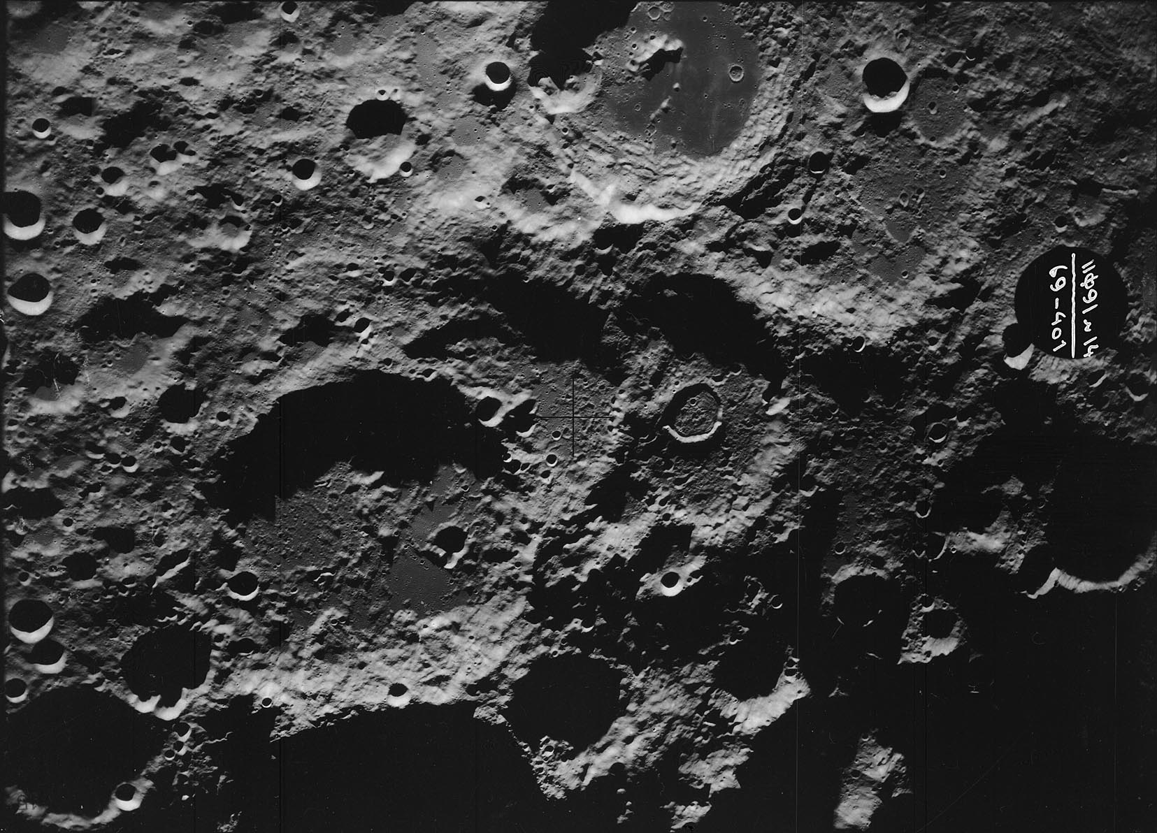 Frame 69 made by Soviet Zond-8 space probe.